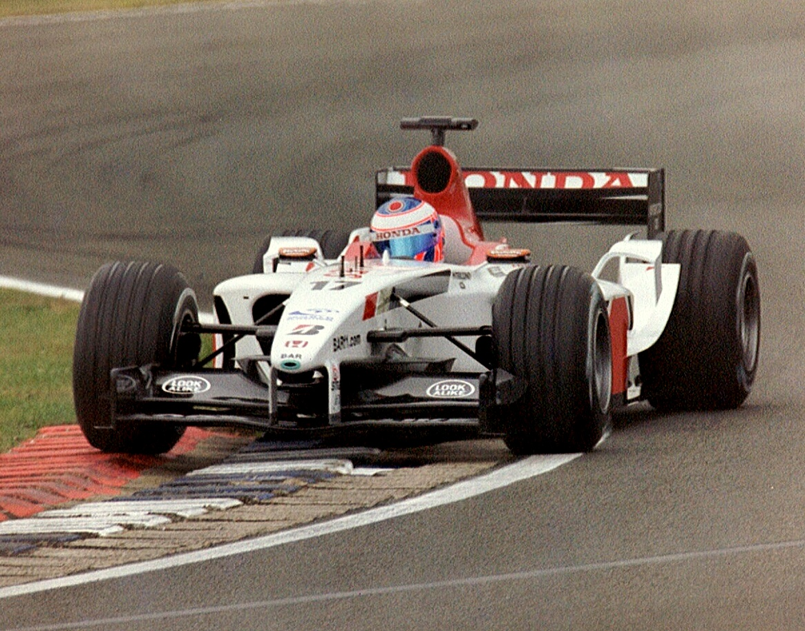 Jenson Button, driving his Lucky Strike BAR Honda at the 2003 British Grand Prix.